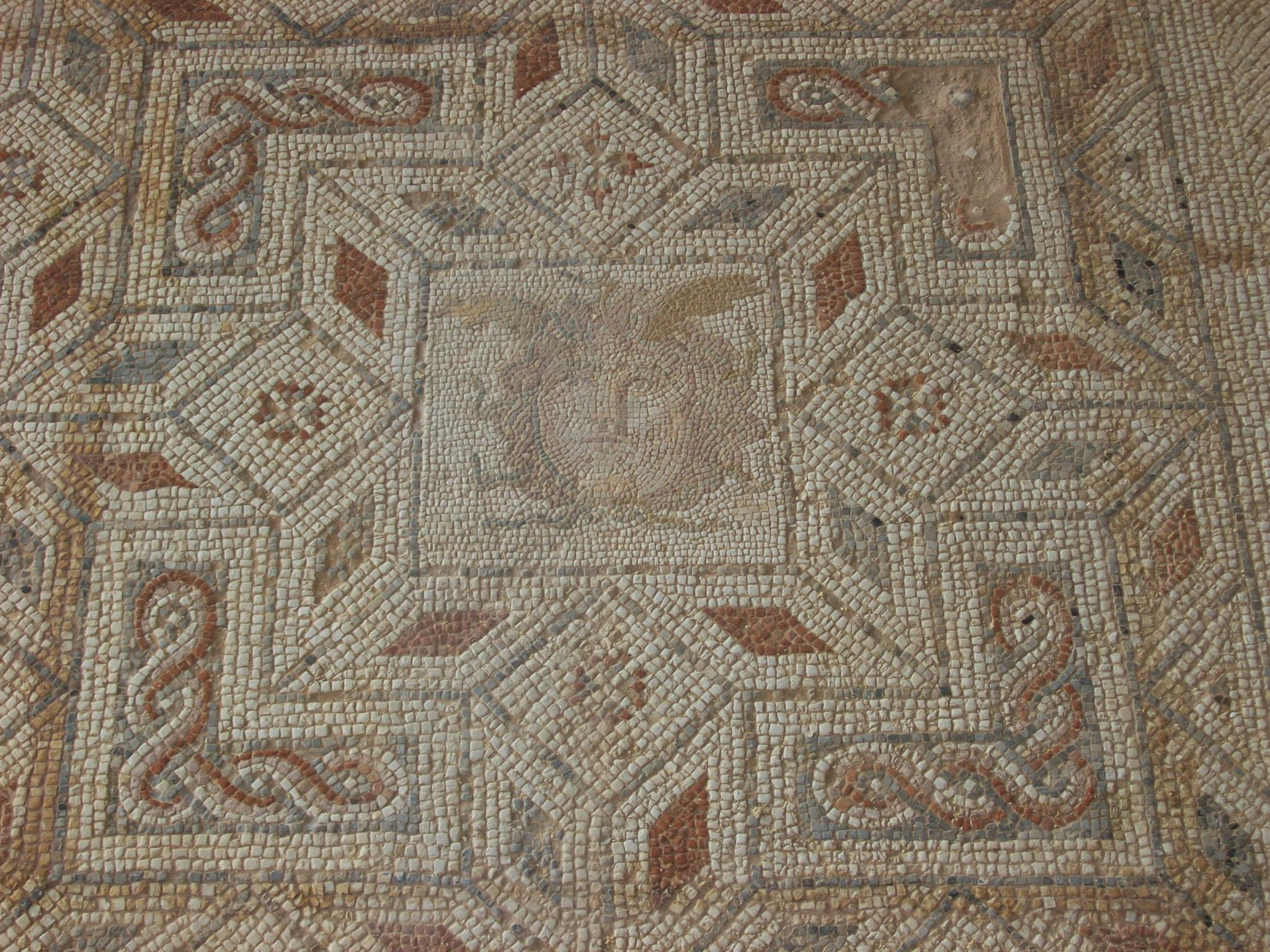 Mosaic with the head of Medusa in Lilybaeum. Archaeologic Parc of Marsala, Sicily